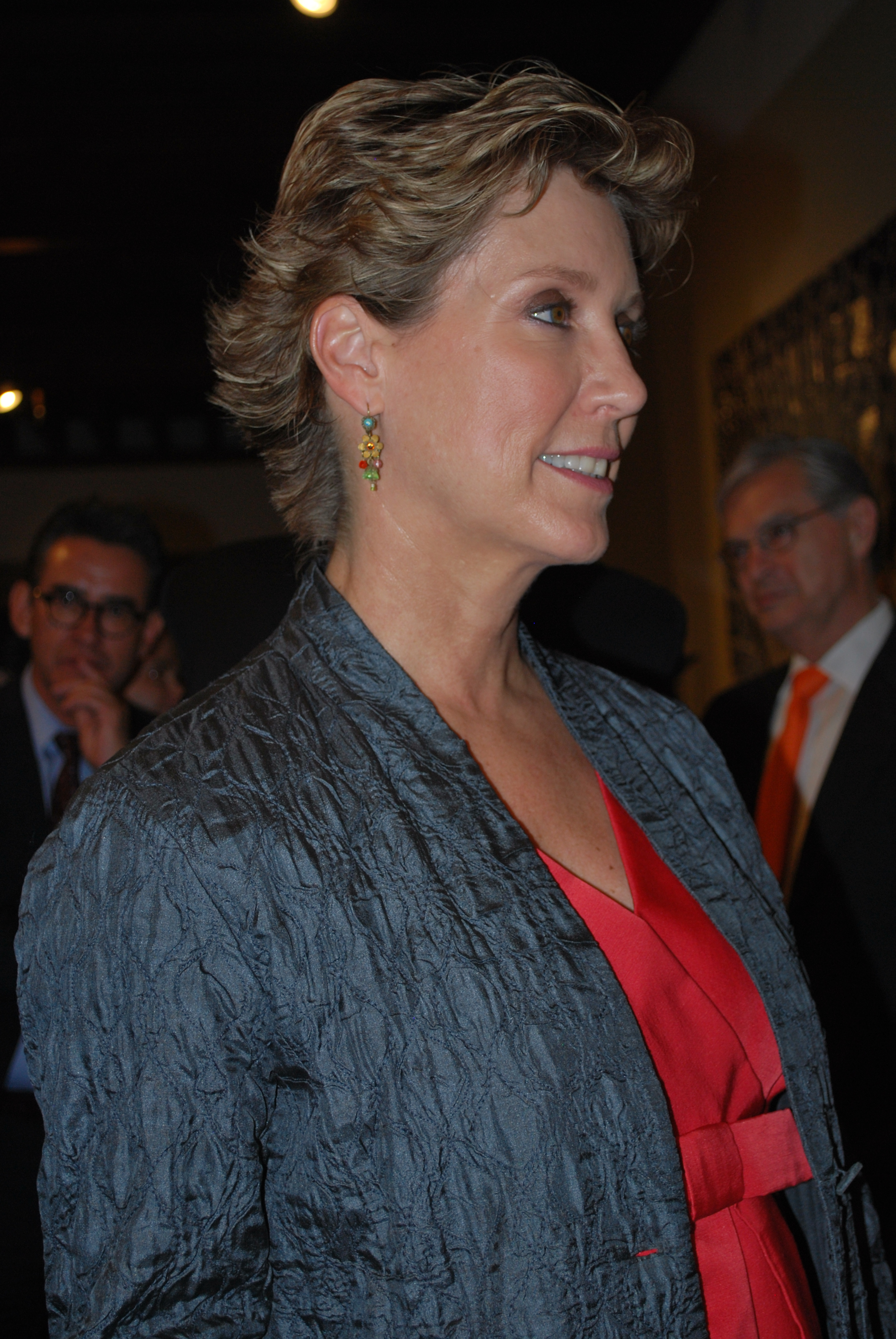 Artist Marcela Lobo at the opening of El cinco de mayo de 1862. Uriarte Talavera Contemporánea at the Franz Mayer Museum